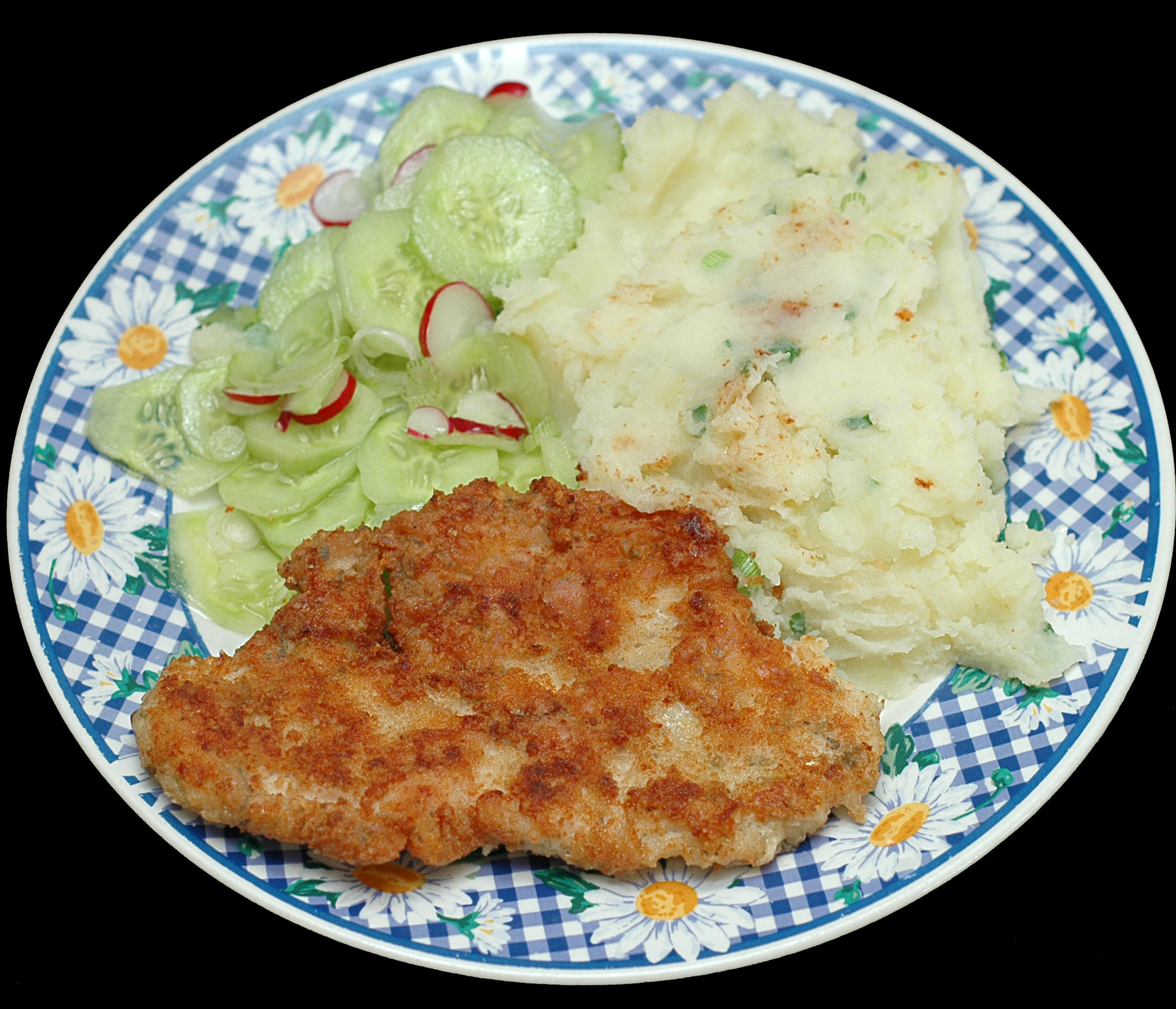 Turkey cutlet with spring onion mash potato and cucumber and radish salad